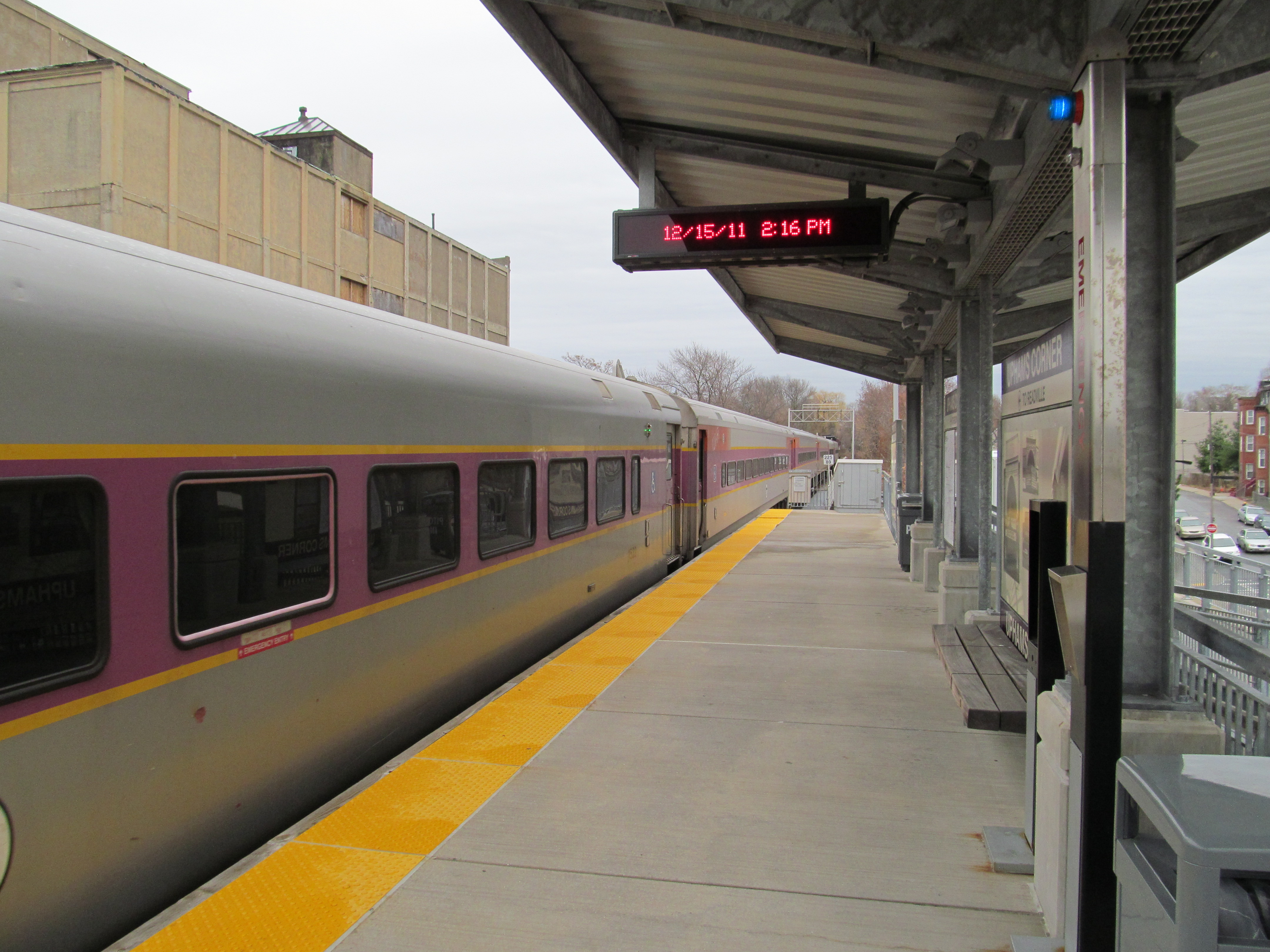 An outbound commuter rail train leaves Uphams Corner on the Fairmount Line